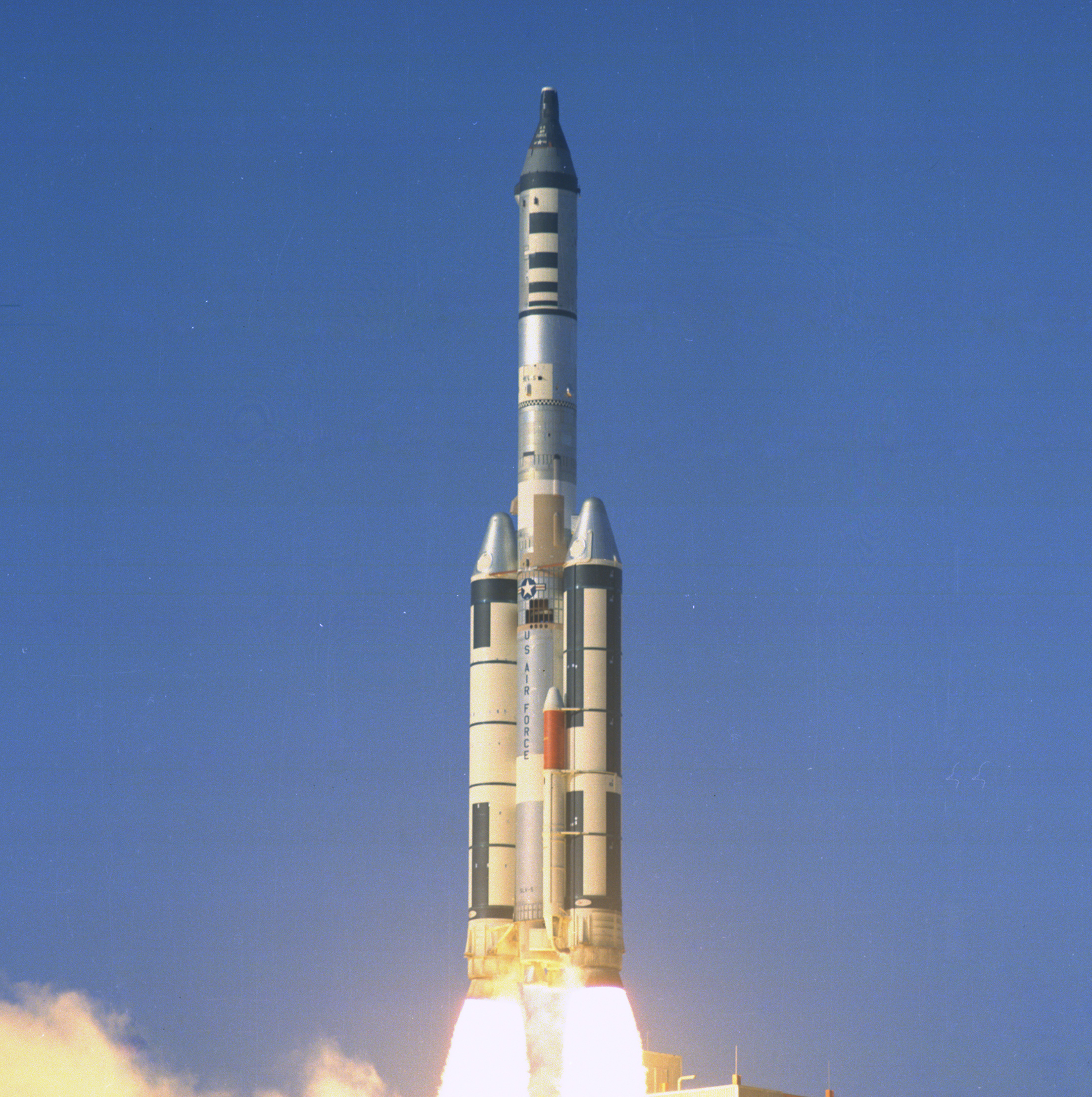 A Titan IIIC rocket lifts off to test a modified unmanned Gemini capsule (Gemini-B) as part of the Manned Orbiting Laboratory program. The November 3, 1966, launch included a simulated lab module. It was as close to space as the project would come.